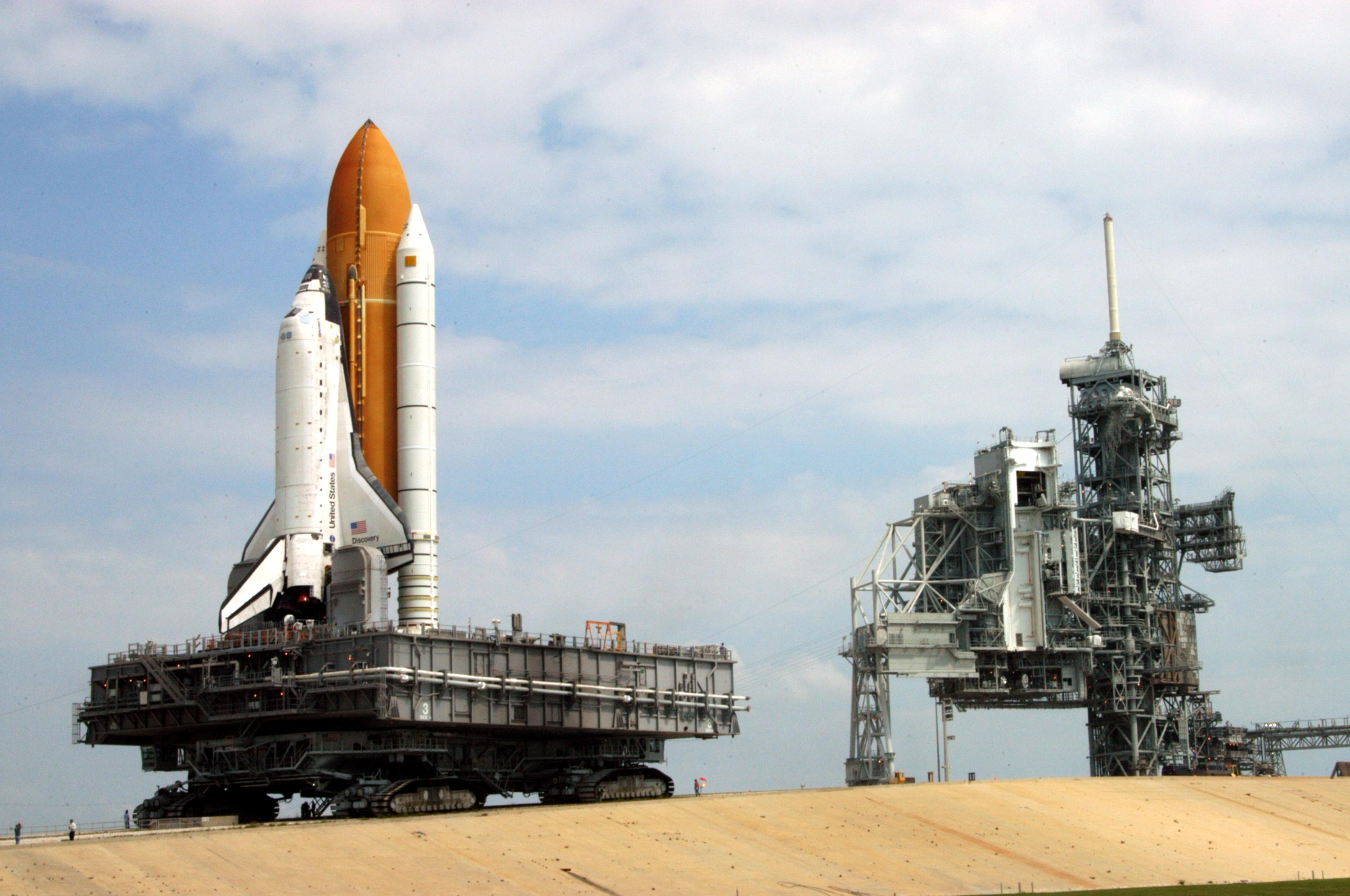 Space Shuttle Discovery makes its way up the 5 percent grade to the hardstand of Launch Pad 39B. First motion for the 4.2-mile journey was at 1:58 a.m. EDT. The Space Shuttle rests on a Mobile Launcher Platform that sits atop a Crawler-Transporter. This is the second rollout of Discovery. The orbiter was returned to the Vehicle Assembly Building for connection to an improved External Tank. Launch of Discovery on its Return to Flight mission STS-114 is targeted for a launch window extending from July 13 to July 31.